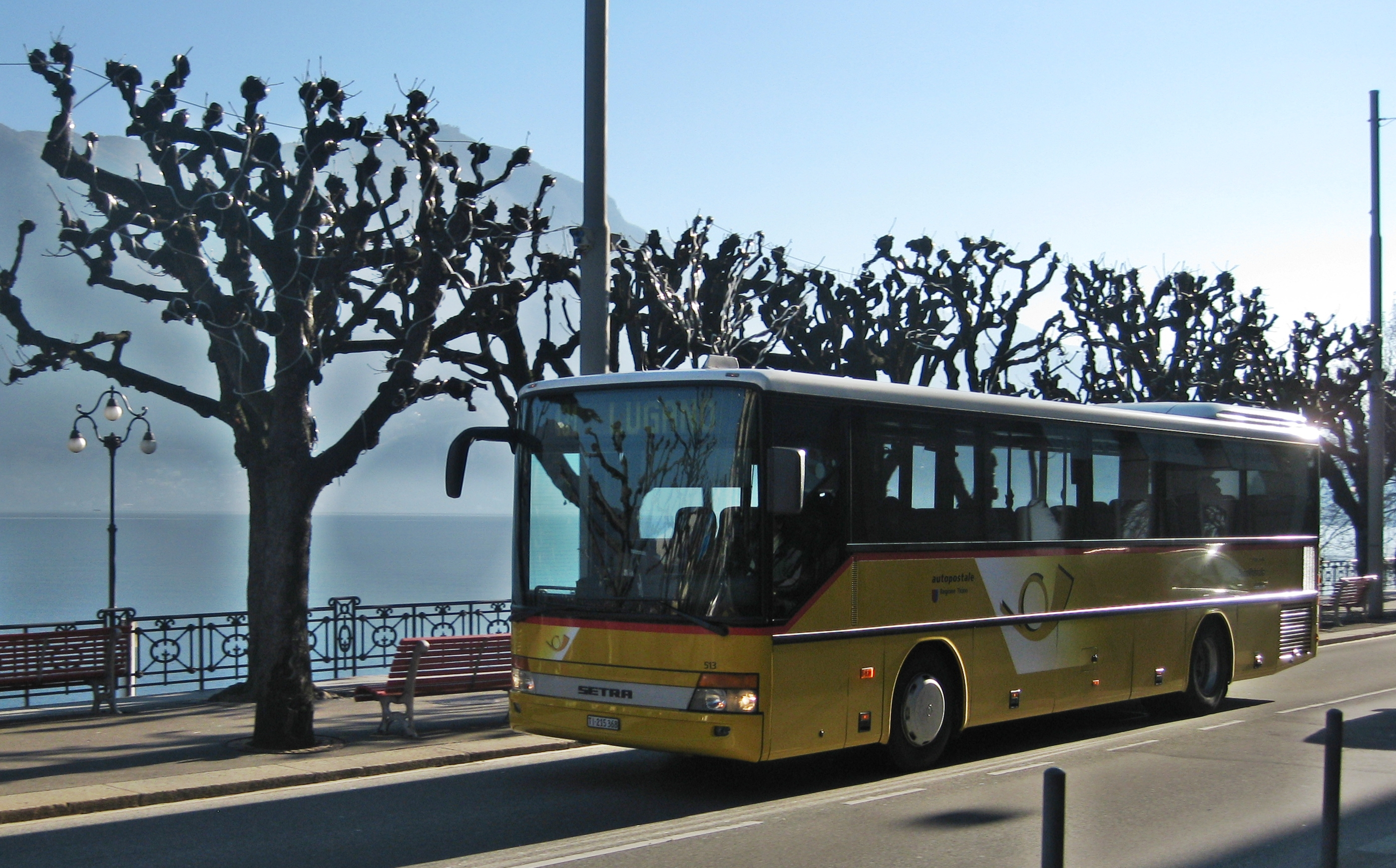 Coach (in Switzerland, called "Postauto/post car") of the Swiss Post (Switzerland AG car) for public transporting people in Lugano; Label: Setra